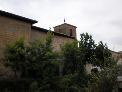 Picture taken from the other side of the river Arto, is the church of San Millan de Yecora